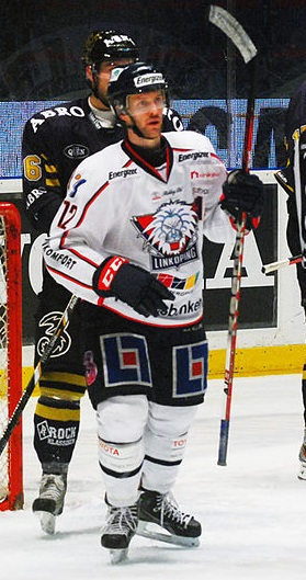 Sebastian Karlsson during a game against AIK in November 2012.